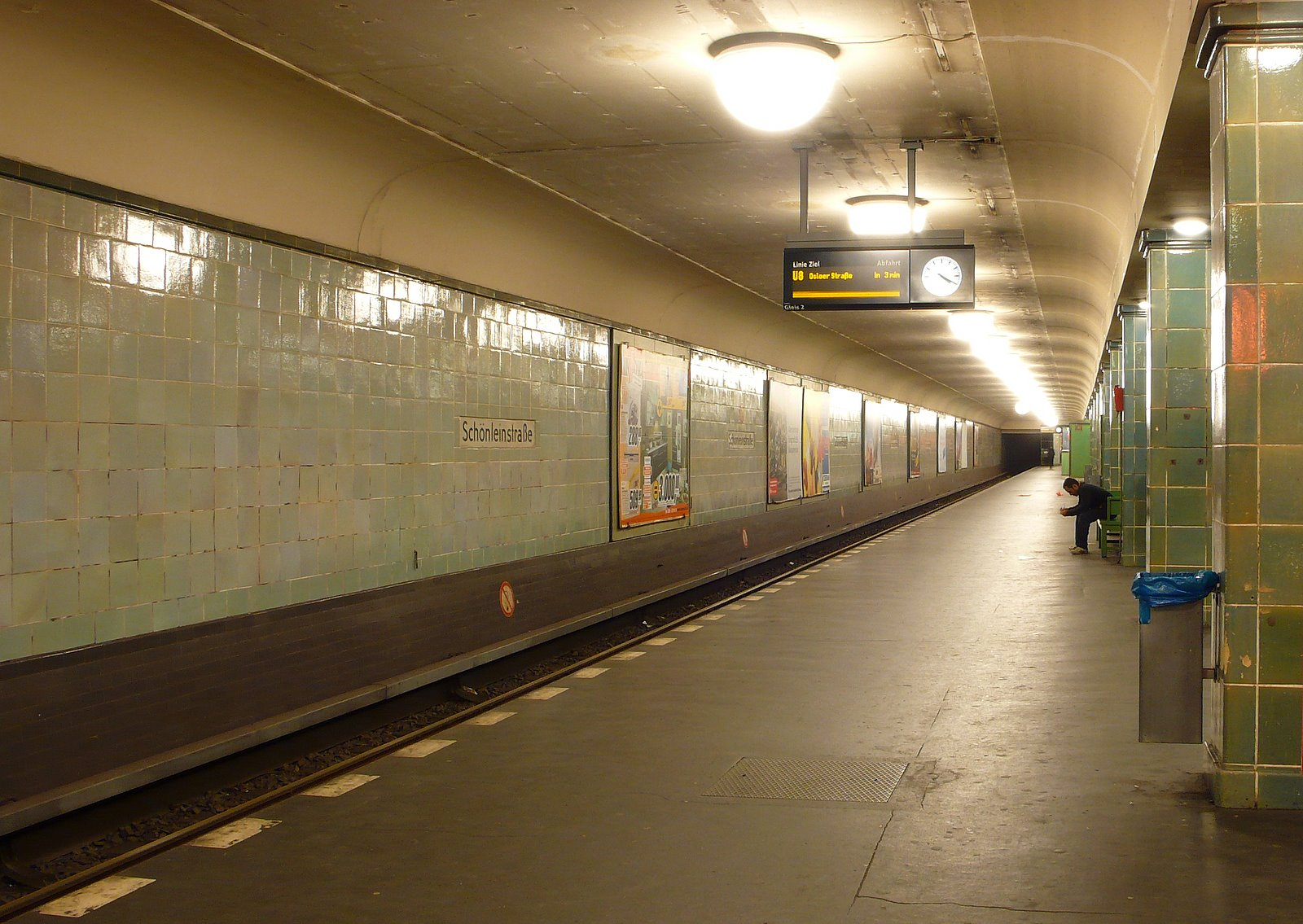 Schoenleinstr subway berlin